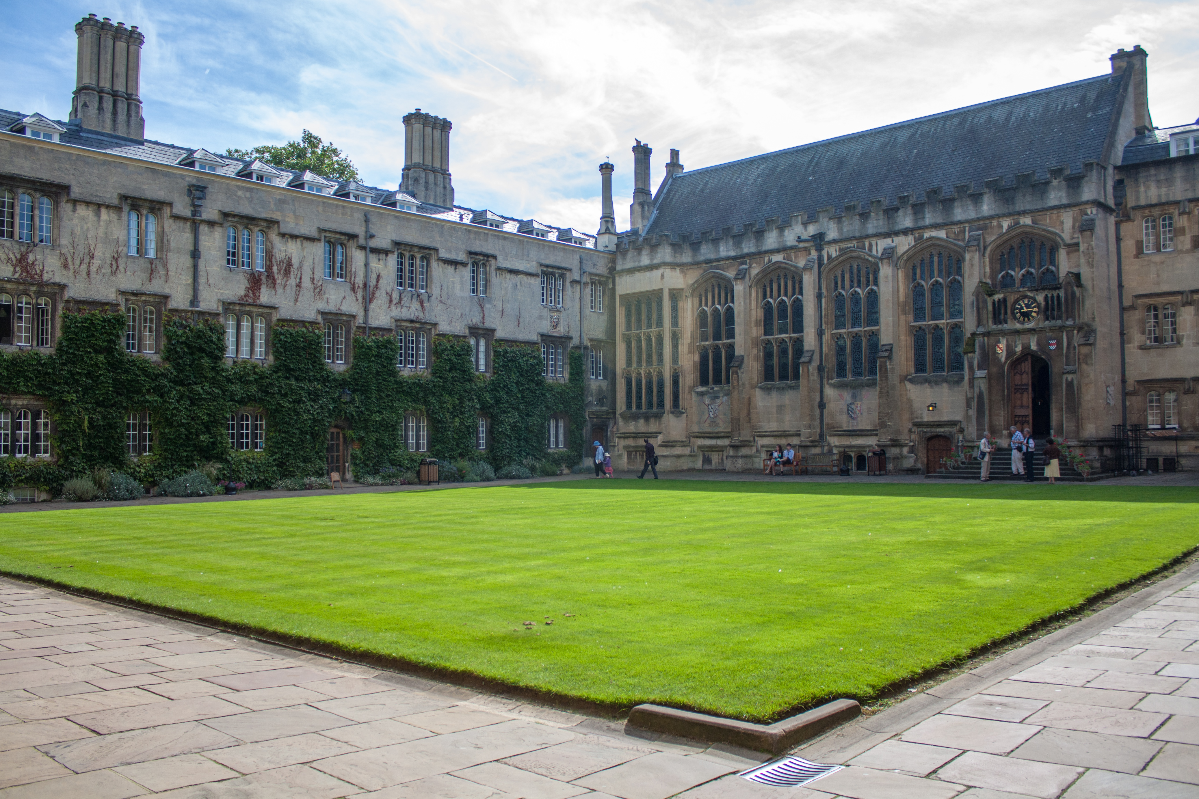 The quadrangle at Exeter College, Oxford